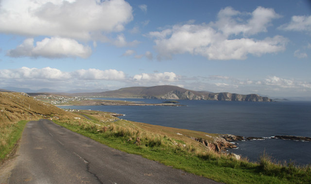 Coast Road towards Keel Looking towards Dooega Head from the coast road near Keem with Carrickmore reefs on the right